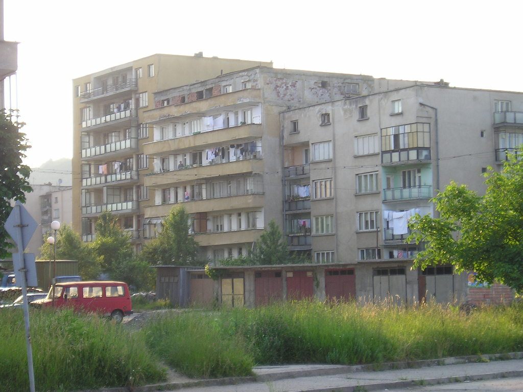 Photo of an apartment building in Berkovitza, Bulgaria